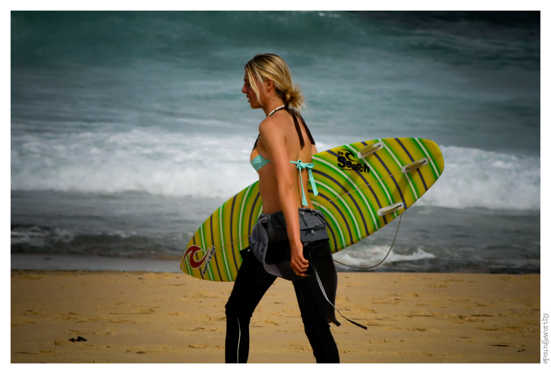 Surfest started at Merewether Beach today...two weeks of surfing competitions, bikini comps and an untold number of Chiko rolls being consumed...expect lots of surfing pics over the next couple of weeks...